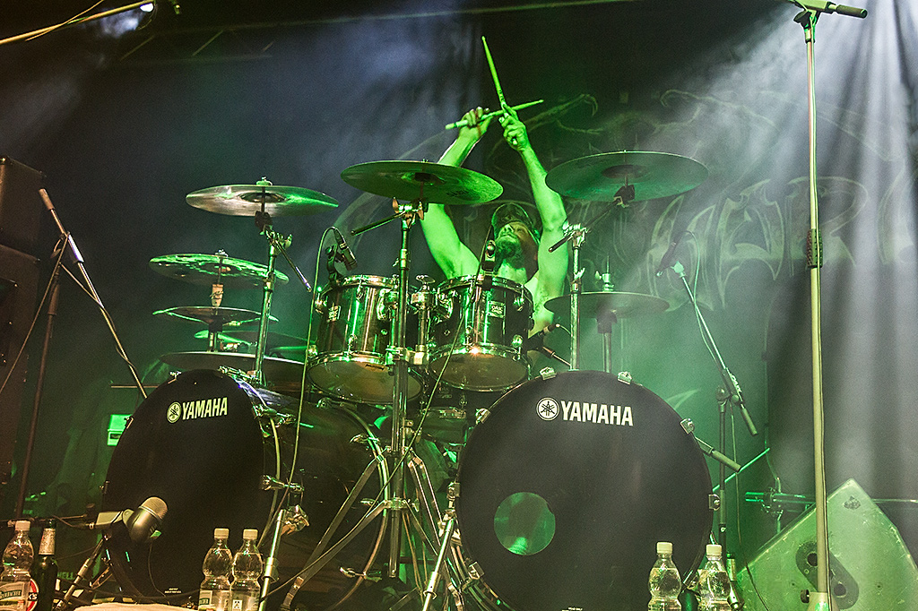 Obituary - 7.12.2012 - Music Hall, Geiselwind